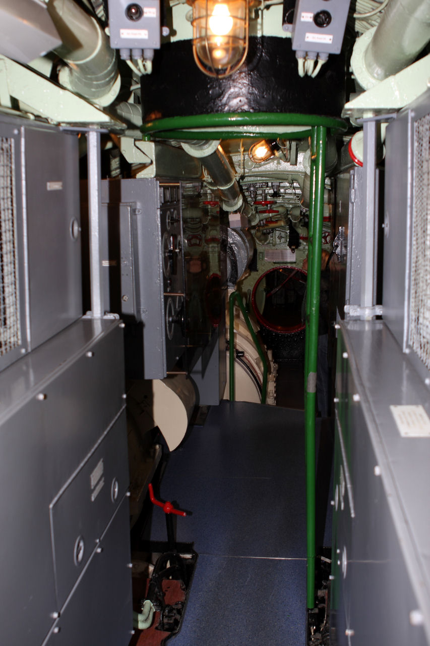 Electric engine room of submarine Wilhelm Bauer (ex U 2540).